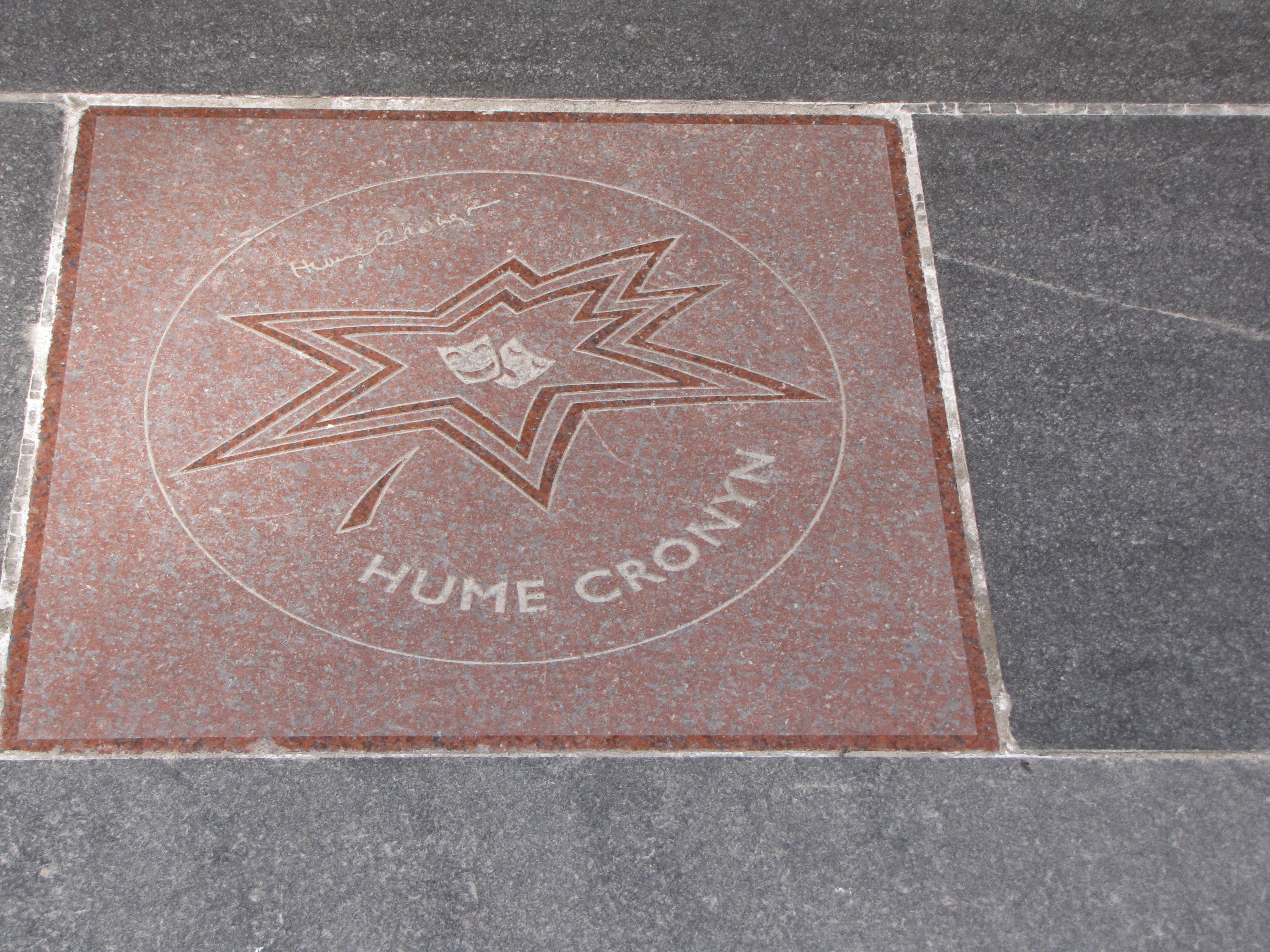 Hume Cronyn's star on Canada's Walk of Fame